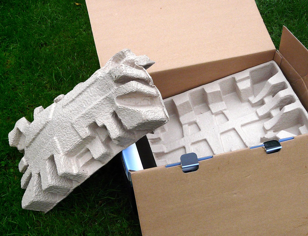 Papier-mâché used for packaging.